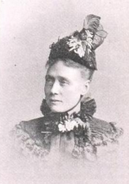 A white woman wearing a tall, elaborate bonnet and a high-collared capelet, fastened at the throat.